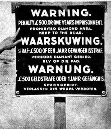 Sperrgebiet warning sign from page 127 of the South West Africa Yearbook (1947)